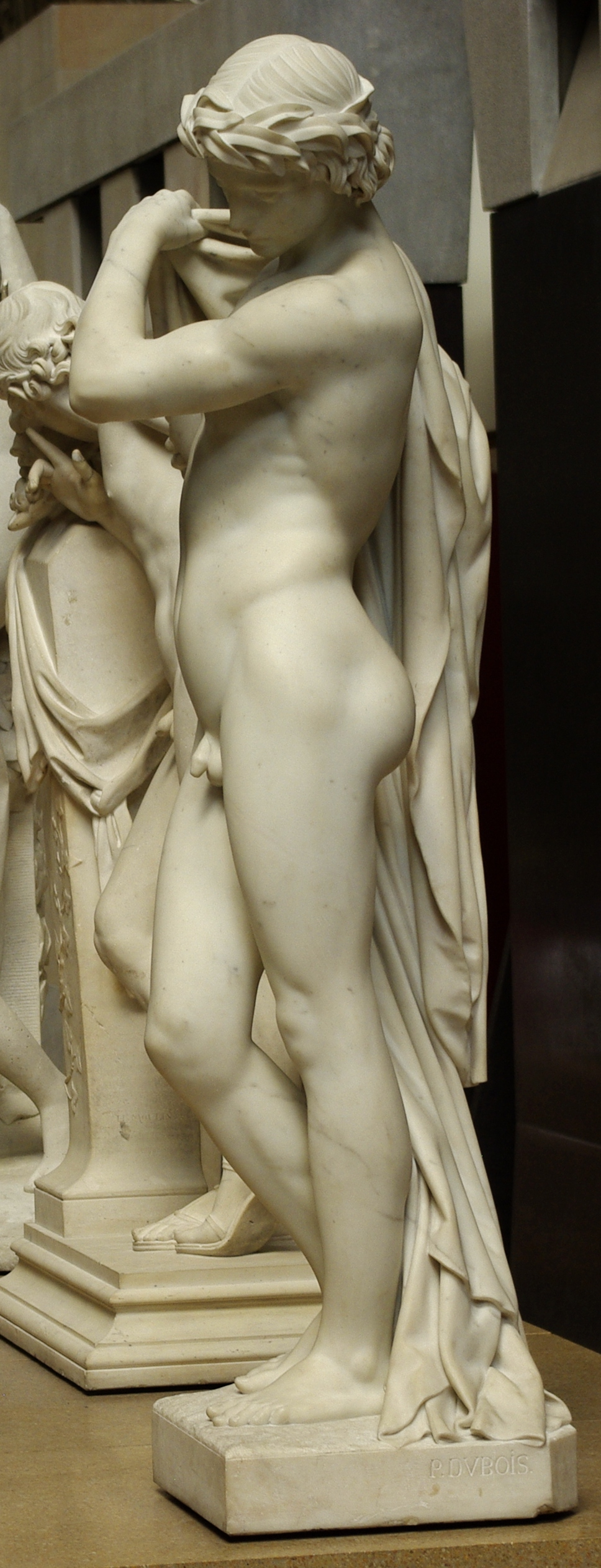 This is the second copy made from the plaster of 1863. The first one, made in 1866, decorates de façade of the Louvre.